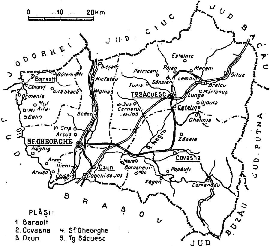 Map of Trei Scaune interwar county, Kingdom of Romania (1938).